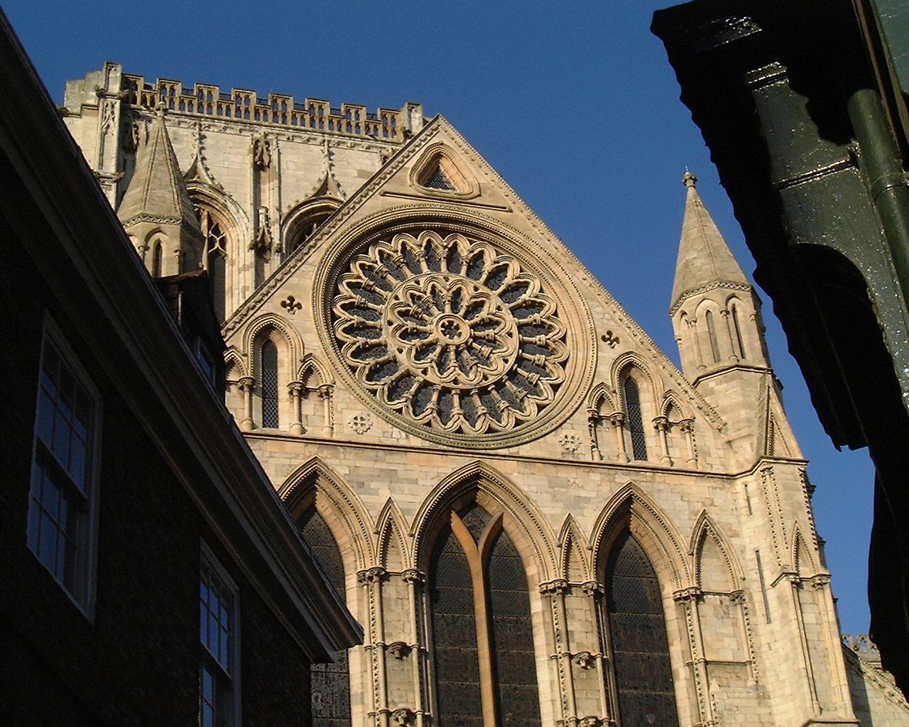 York Minster South Front Rose Window